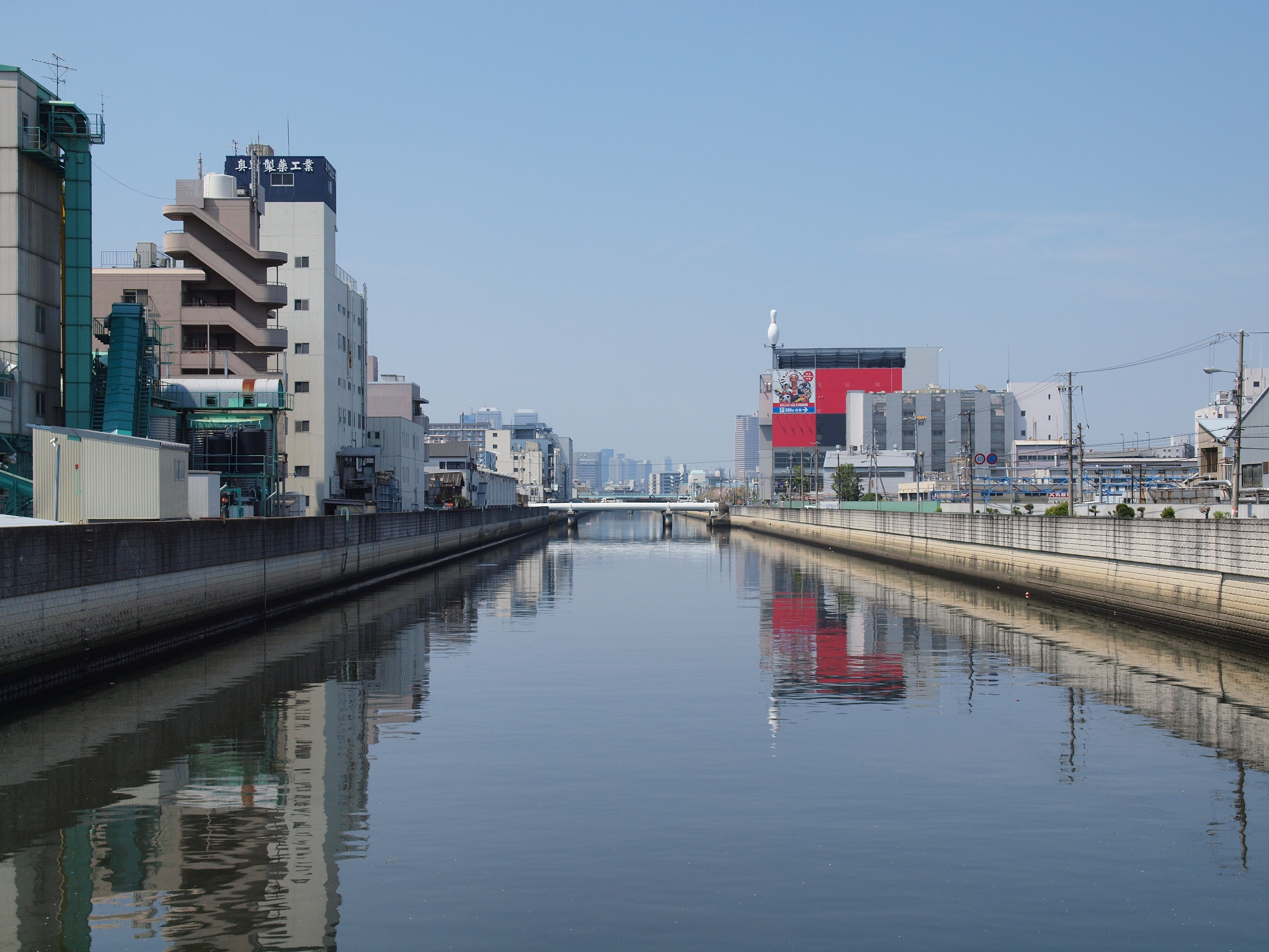 Neyagawa (River) in Tsurumi, Osaka